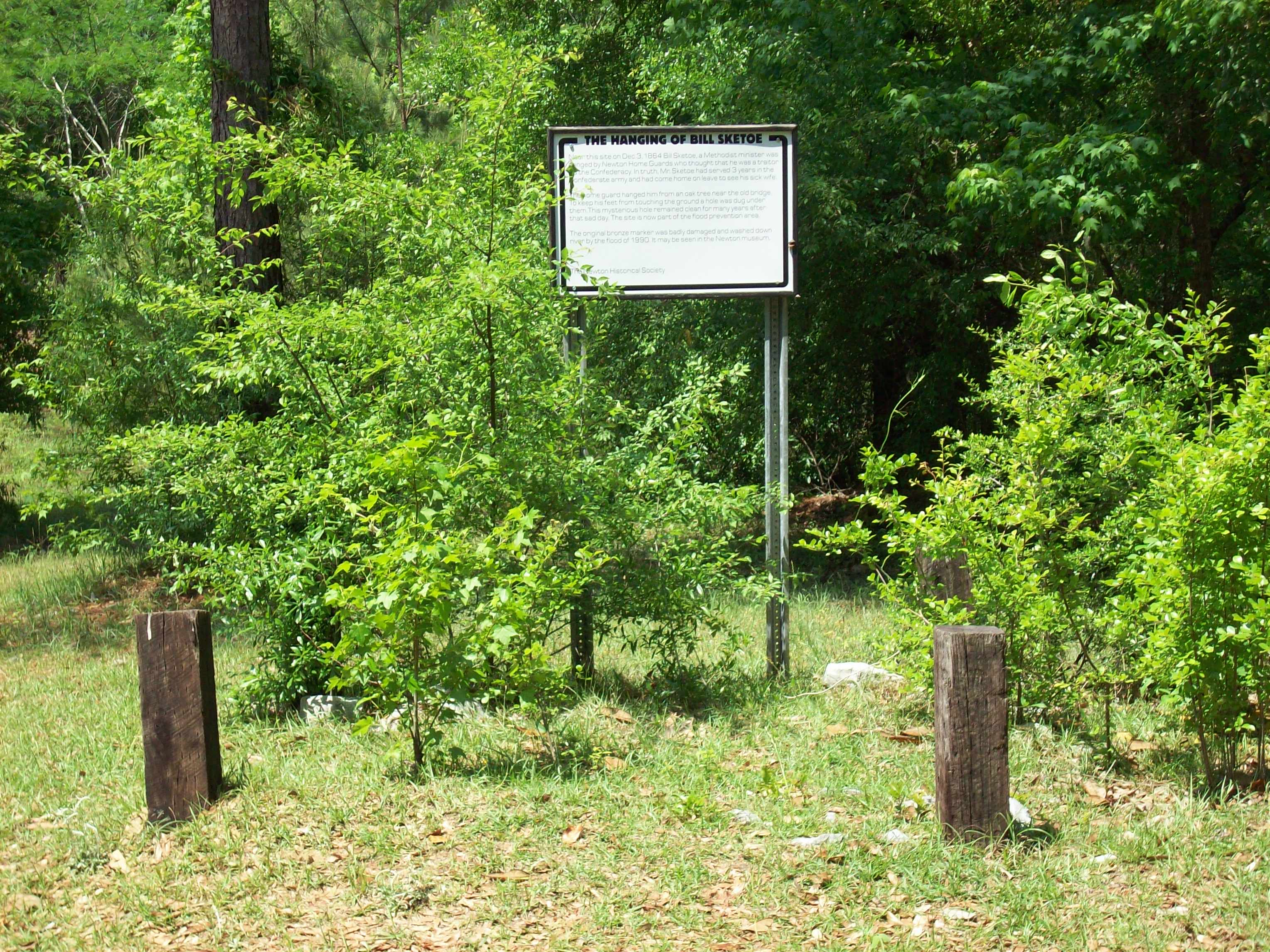 Monument to Bill Sketoe in Newton, Alabama